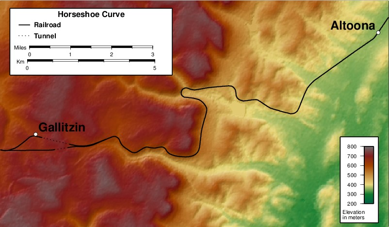 Topography of the Horseshoe Bend area of Pennsylvania